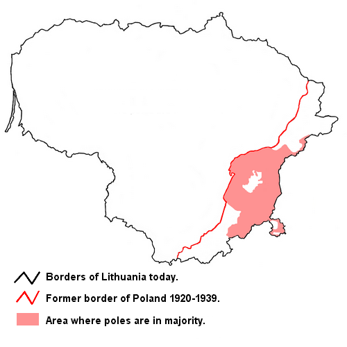 Area of polish minority in Lithuania.